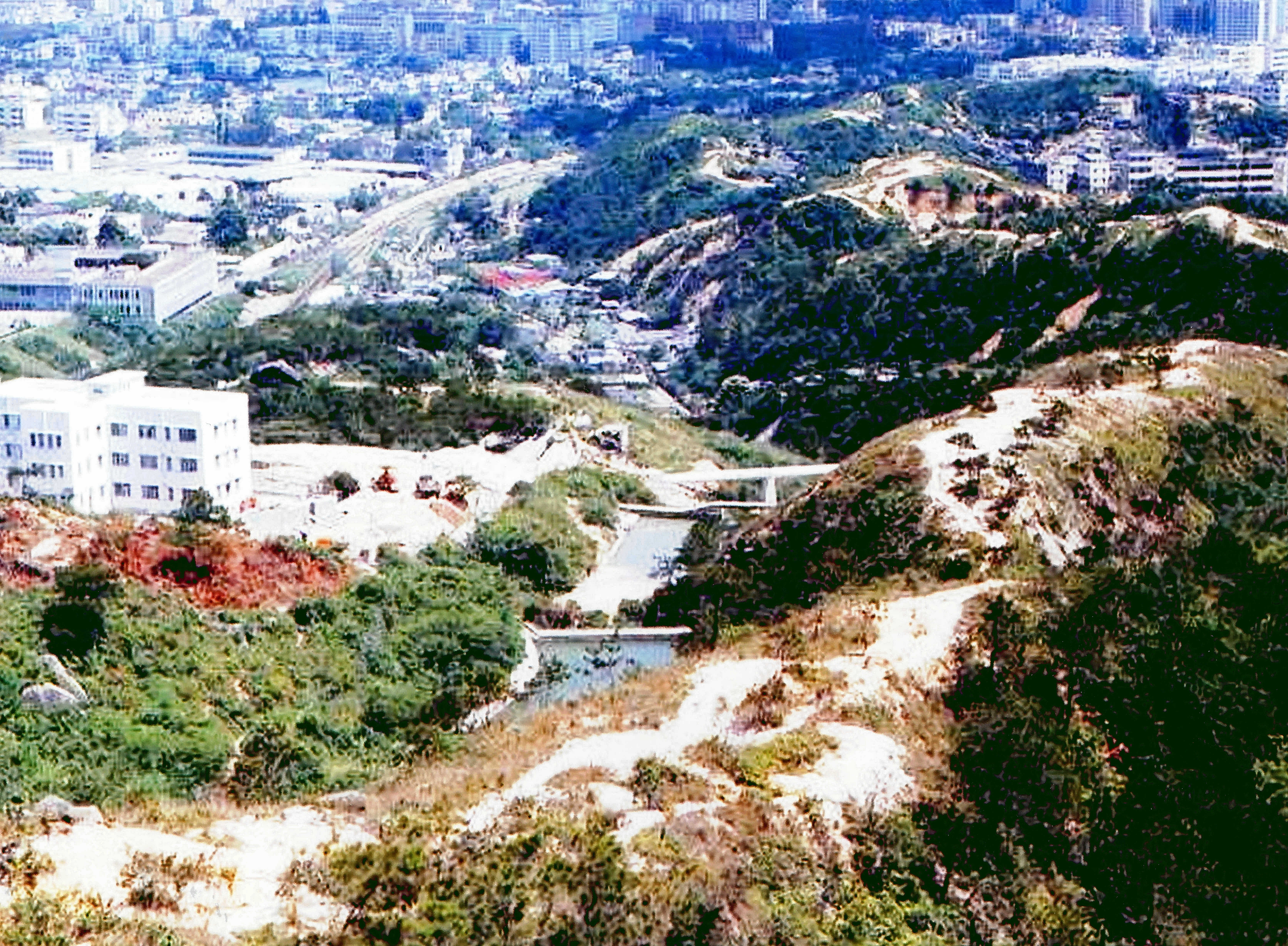 Siu Sai Wu Reservoirs, Beacon Hill, Kowloon City, Hong Kong